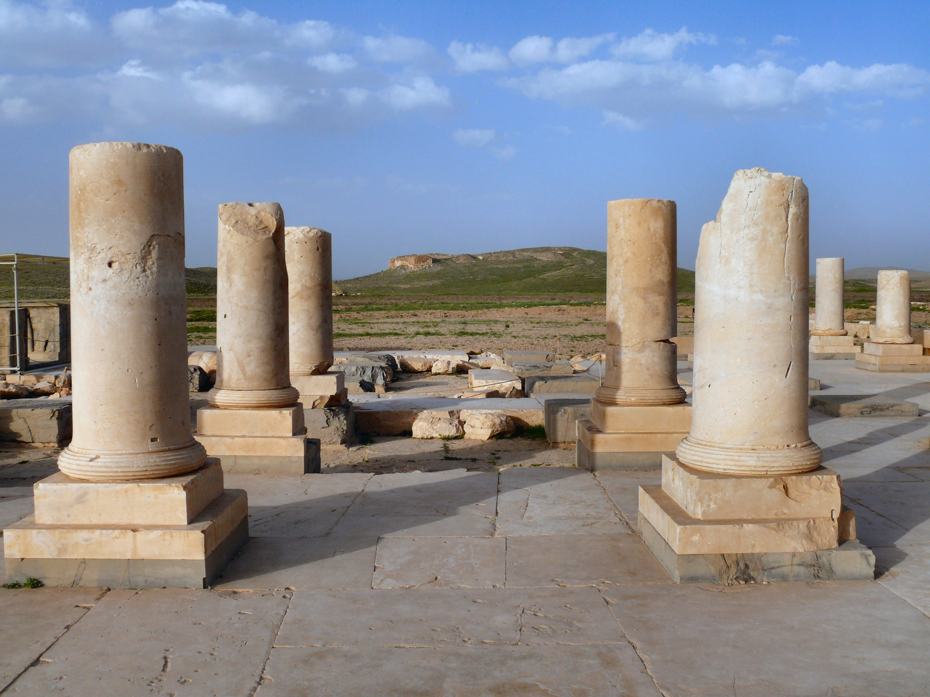 Cyrus the great's private palace at Pasargadae. This palace is one of the two first builded in the emerging capital of the founder of the new persian empire. Before Pasargadae, the persian who were nomadic shepperds, had no real architectural traditions of stone and columned palaces. Pasargade changed that, and shows the first attempts to set the persian achaemenian architectural style: Mesopotamian palatial formula associating 2 palaces, one for the audience and one private, first hypostyle halls with ionian greeks columns. The plan of the palaces were about simple and not yet symetrical, but within 2 generations of kings, the persian magnifiscence will raise summits of perfection and beauty at Persepolis and Susa. Pasargadae's palaces were surounded by magnificent gardens, wich were known for having been created by Cyrus himself. The beauty of these gardens became legendary as athenian ancient scholar Xenophon himself reported in his Anabasis and his Cyropaedia. This statement was also repeated by Plato. Their name "Paeredysios" have even a legacy in our actual vocabulary as it evolved and gave the word "Paradise", showing us wich kind of heaven imaging was attached to these gardens.